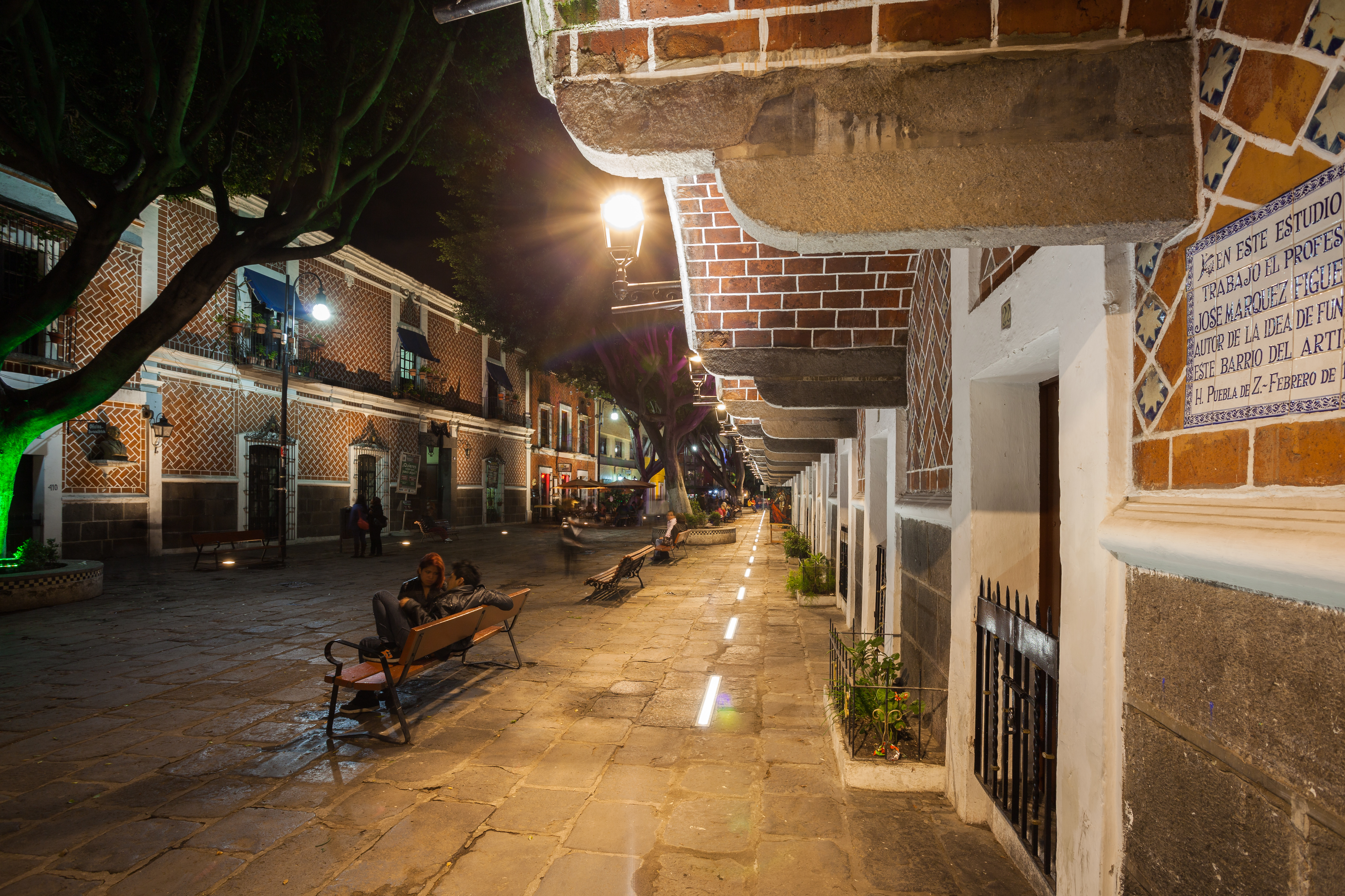 Market of El Parián, Puebla, Mexico